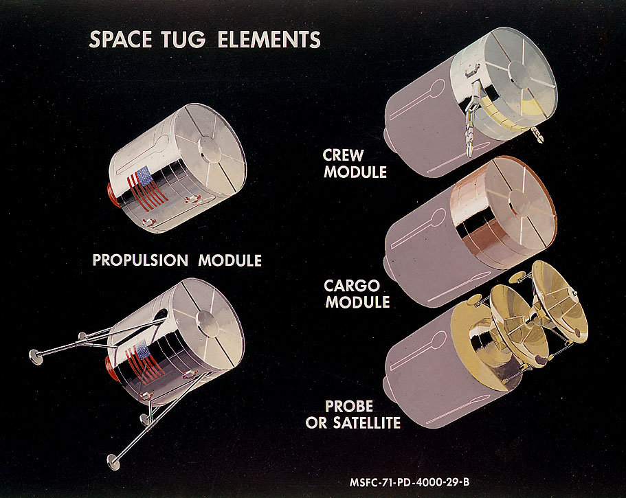 Space Tug Elements Managed by Marshall Space Flight Center, the Space Tug concept was intended to be a reusable multipurpose space vehicle designed to transport payloads to different orbital inclinations. Utilizing mission-specific combinations of its three primary modules (crew, propulsion, and cargo) and a variety of supplementary kits, the Space Tug would have been capable of numerous space applications. The Tug could dock with the Space Shuttle to receive propellants and cargo, as visualized in this 1970 artist's concept. The Space Tug program was cancelled and did not become a reality.